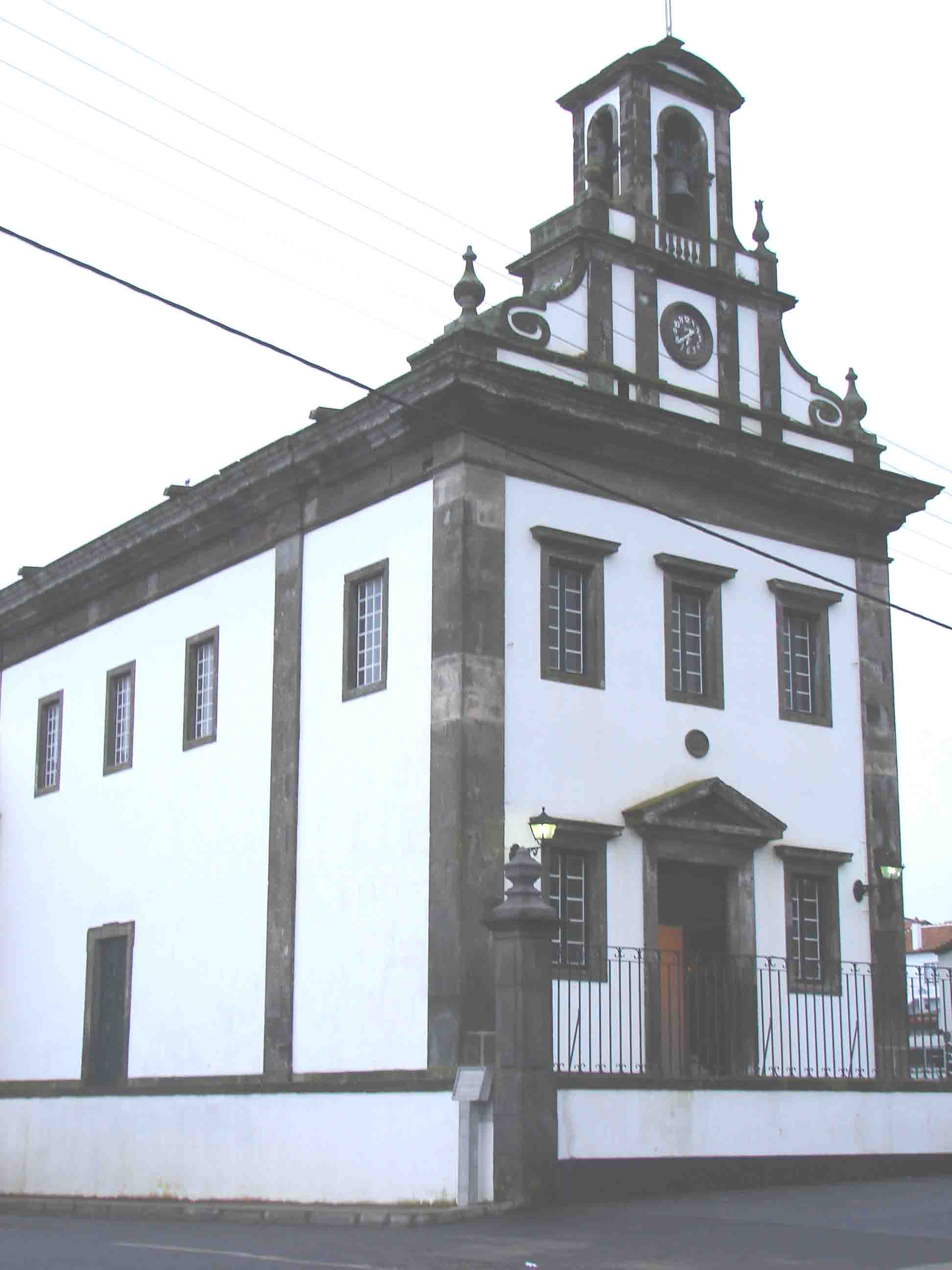 Church of Santa Bárbara, Fonte do Bastardo, Praia da Vitória, Terceira (Azores), Portugal